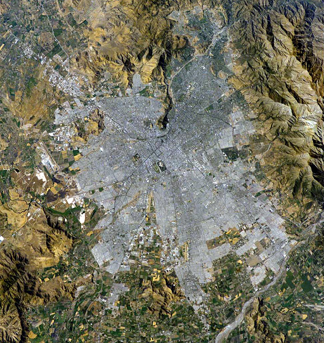 Satellite image of Santiago de Chile